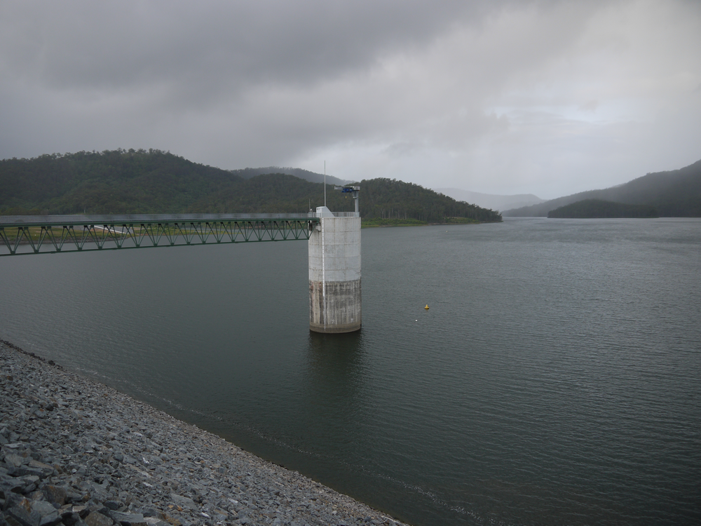 Spillway tower of Hinze Dam following Stage 3 Upgrade (December 2011)